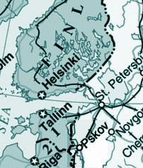 Pskov on map